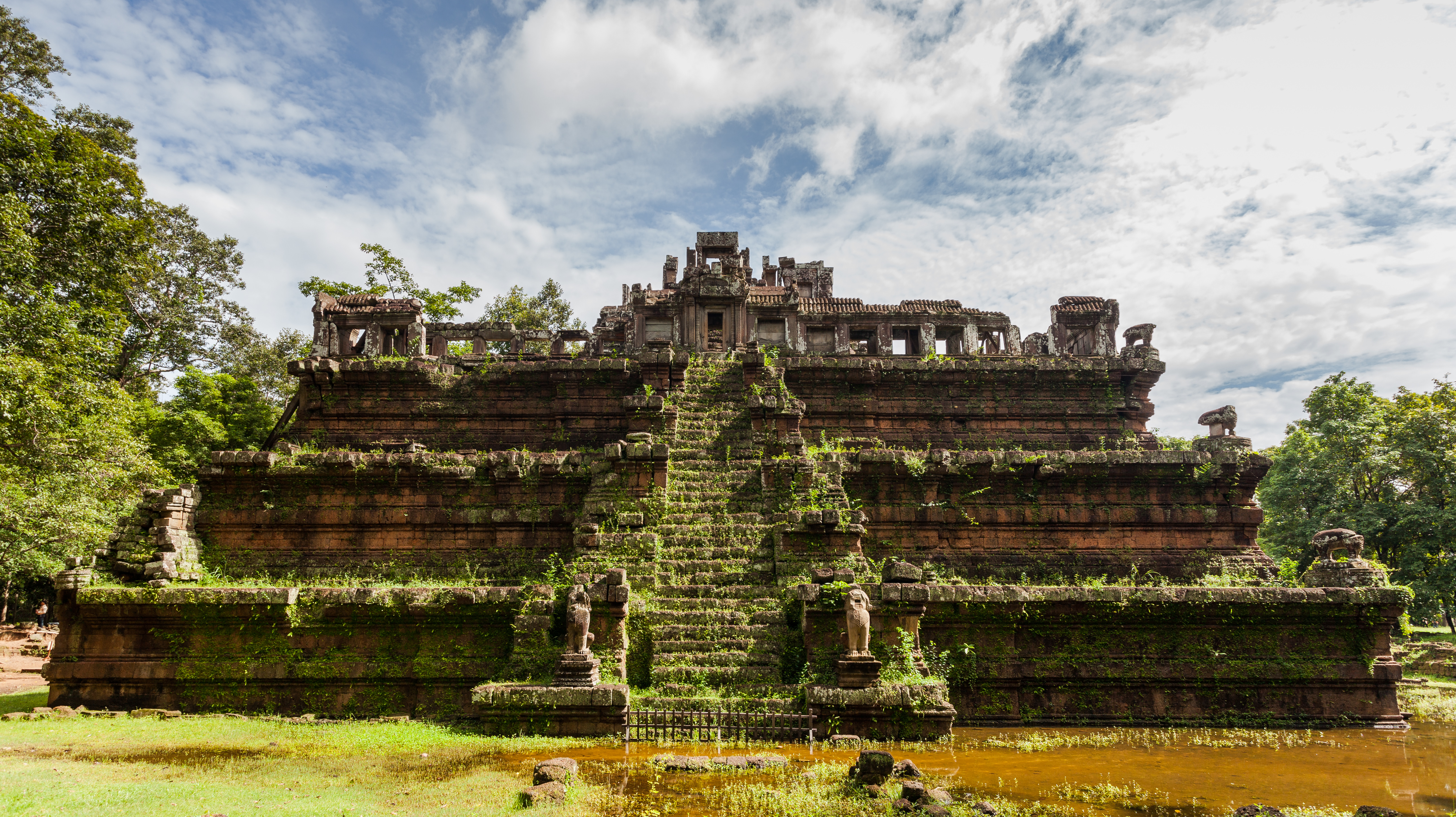 Phimeanakas, Angkor Thom, Cambodia